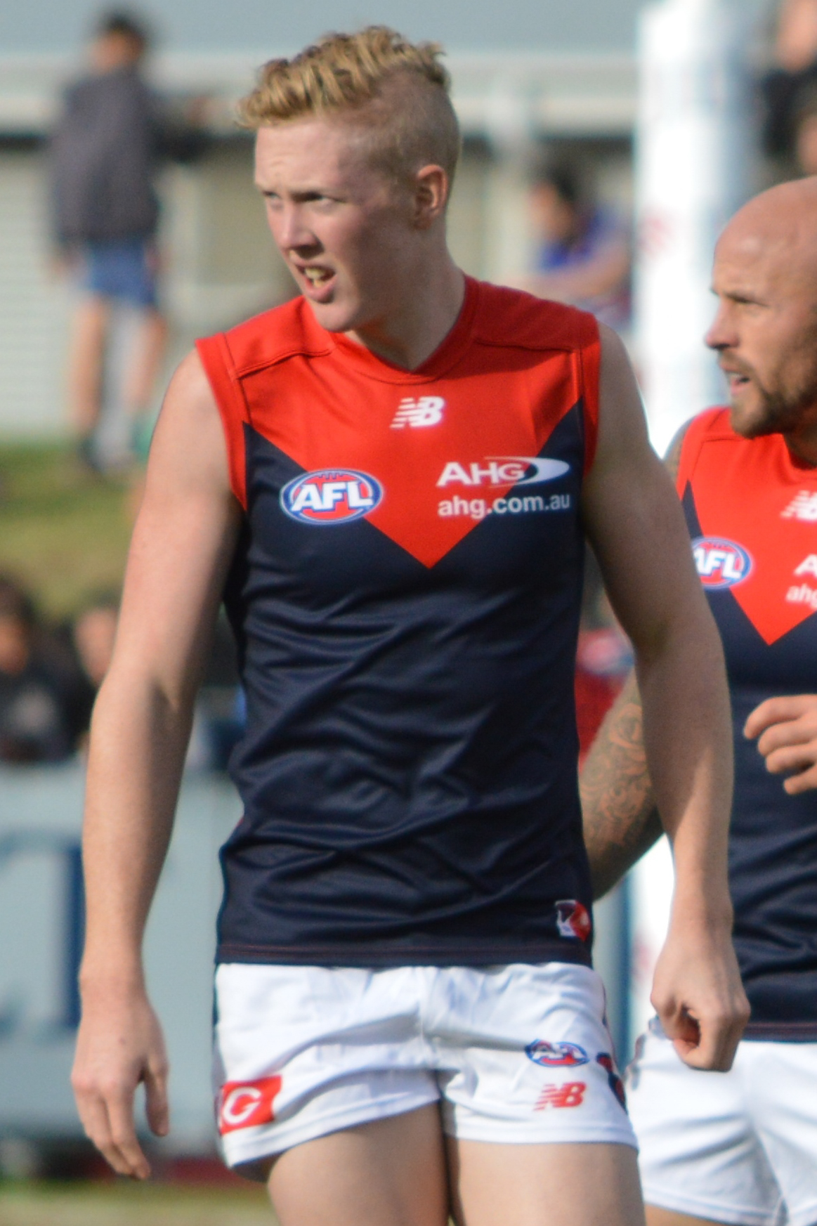 Clayton Oliver playing for Melbourne in a pre-season match in February 2017